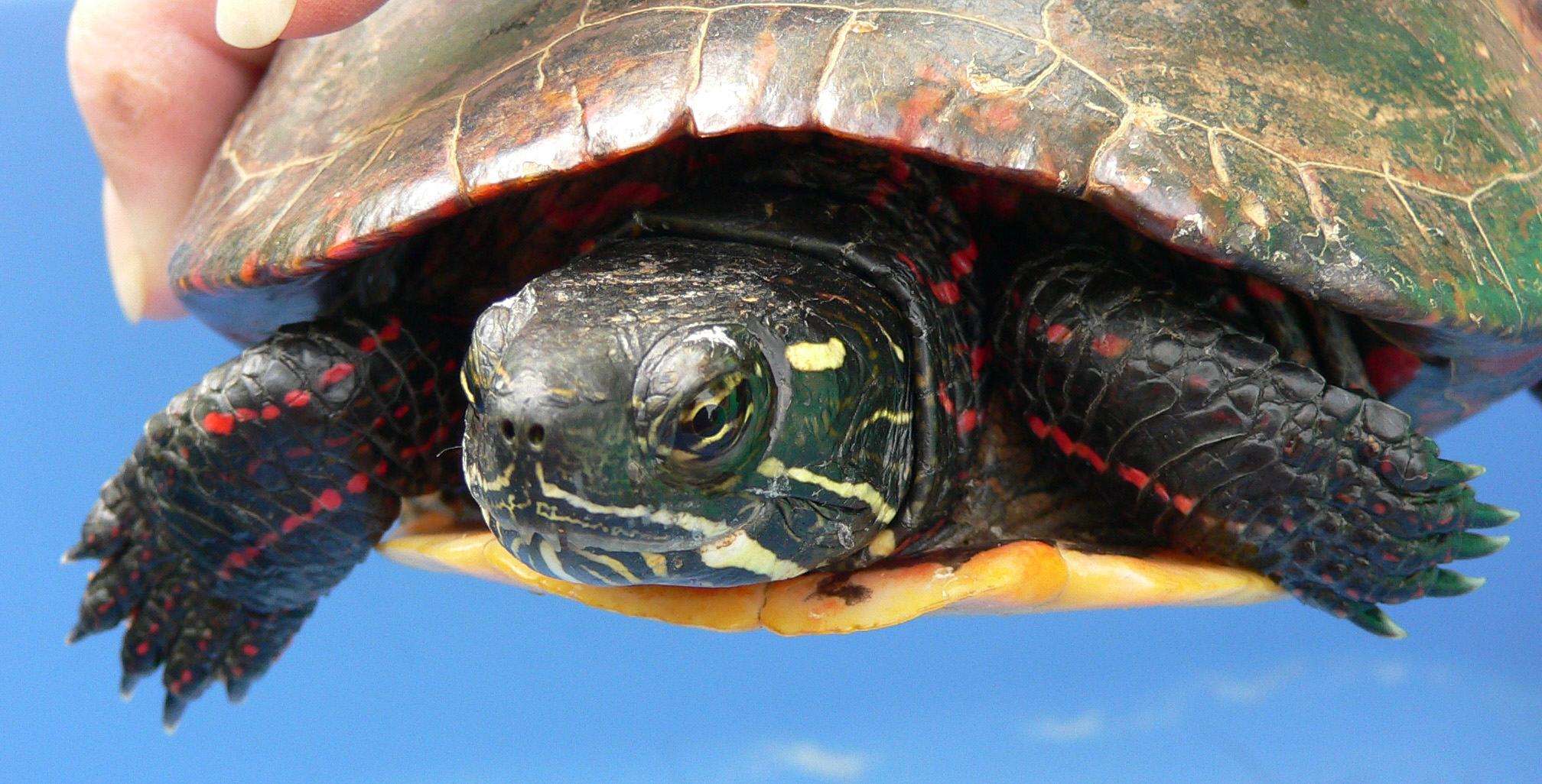 Chrysemys picta